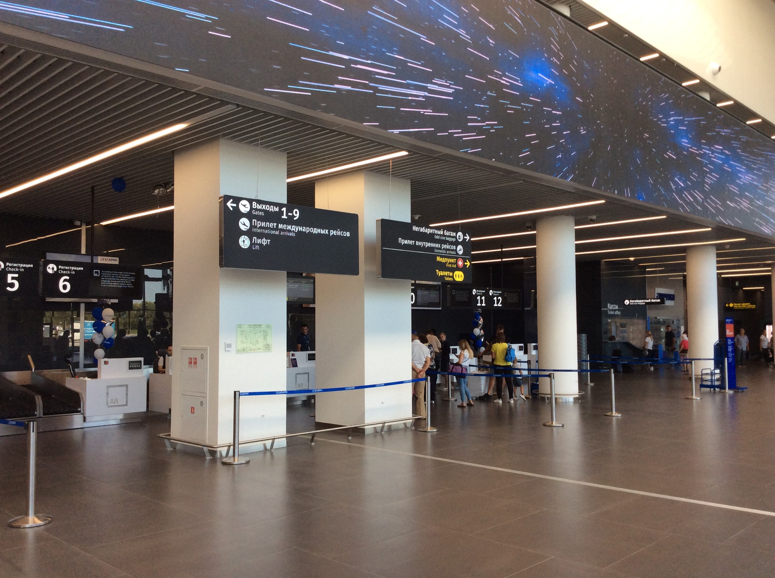 Saratov Gagarin Airport 2 days after opening.